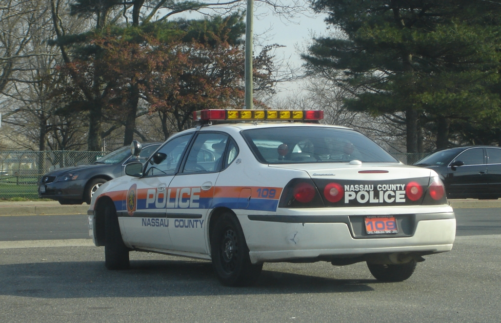 Nassau County Police Department marked patrol vehicle at the intersection of Hempstead Turnpike and Merrick Ave.